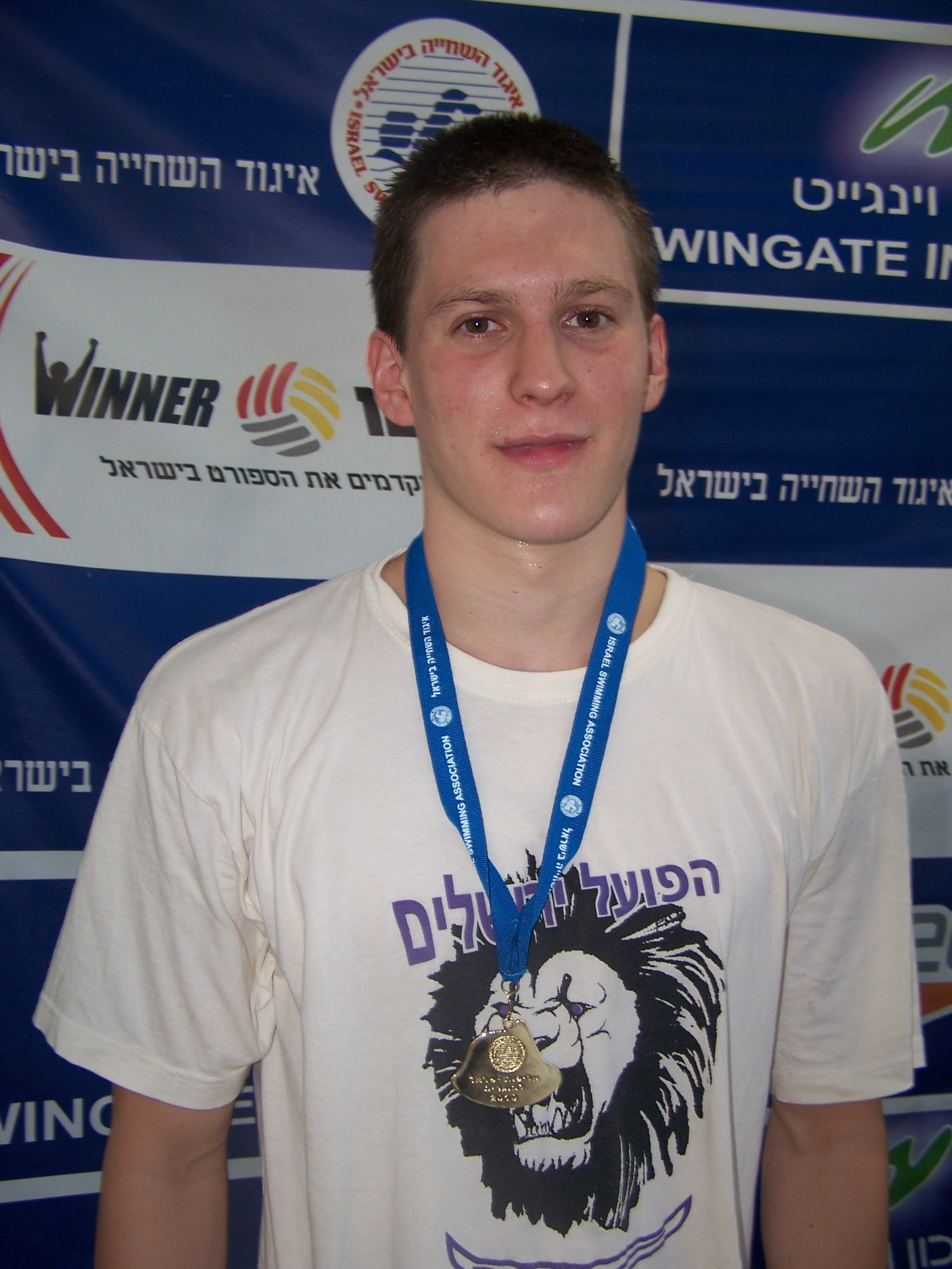 Imri Ganiel won a gold medal in 50 breaststroke in the Israelian Championships in swimming 2010